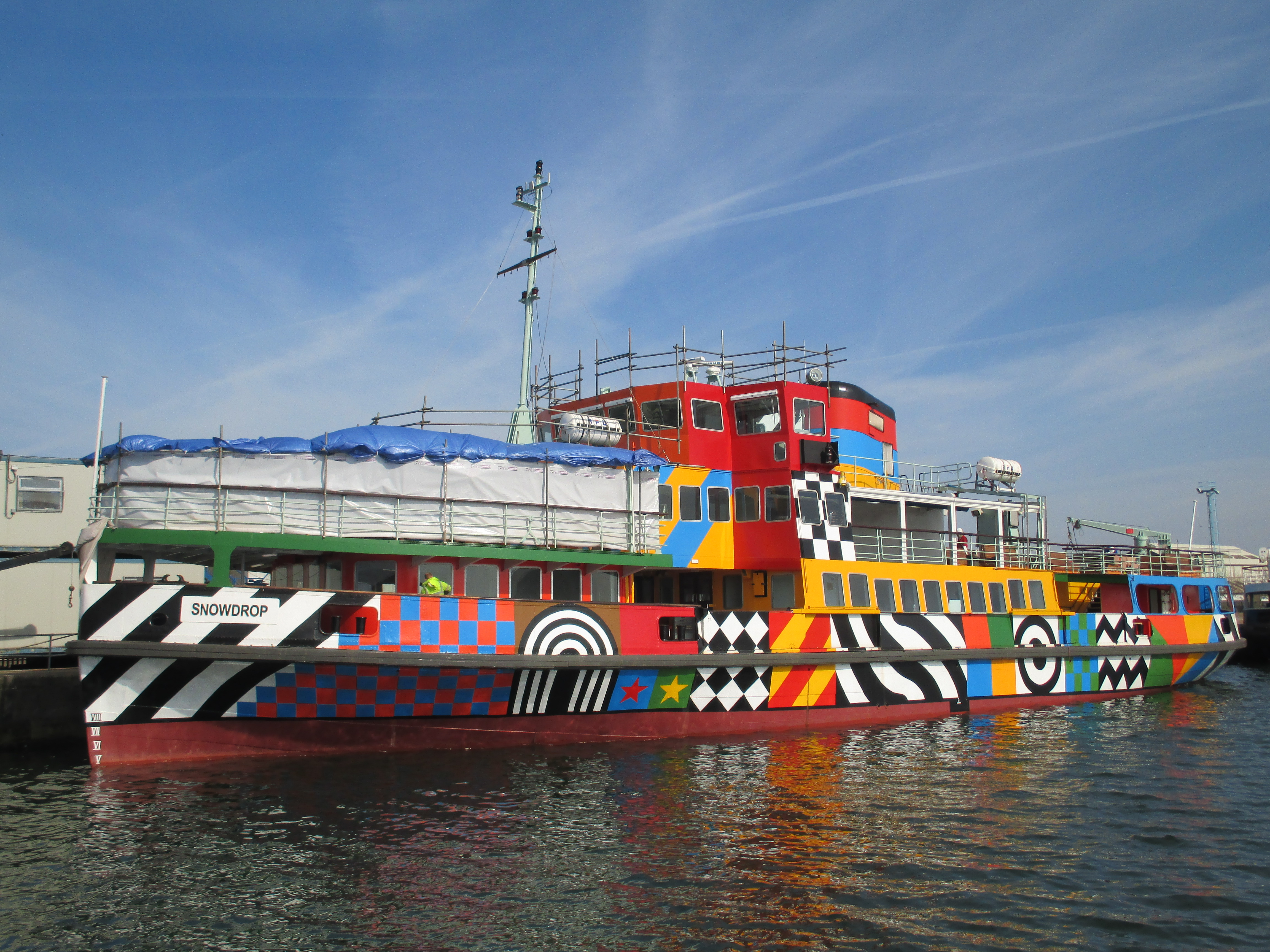 Snowdrop ferry (Dazzle livery), East Float Dock, Birkenhead, Merseyside, England.